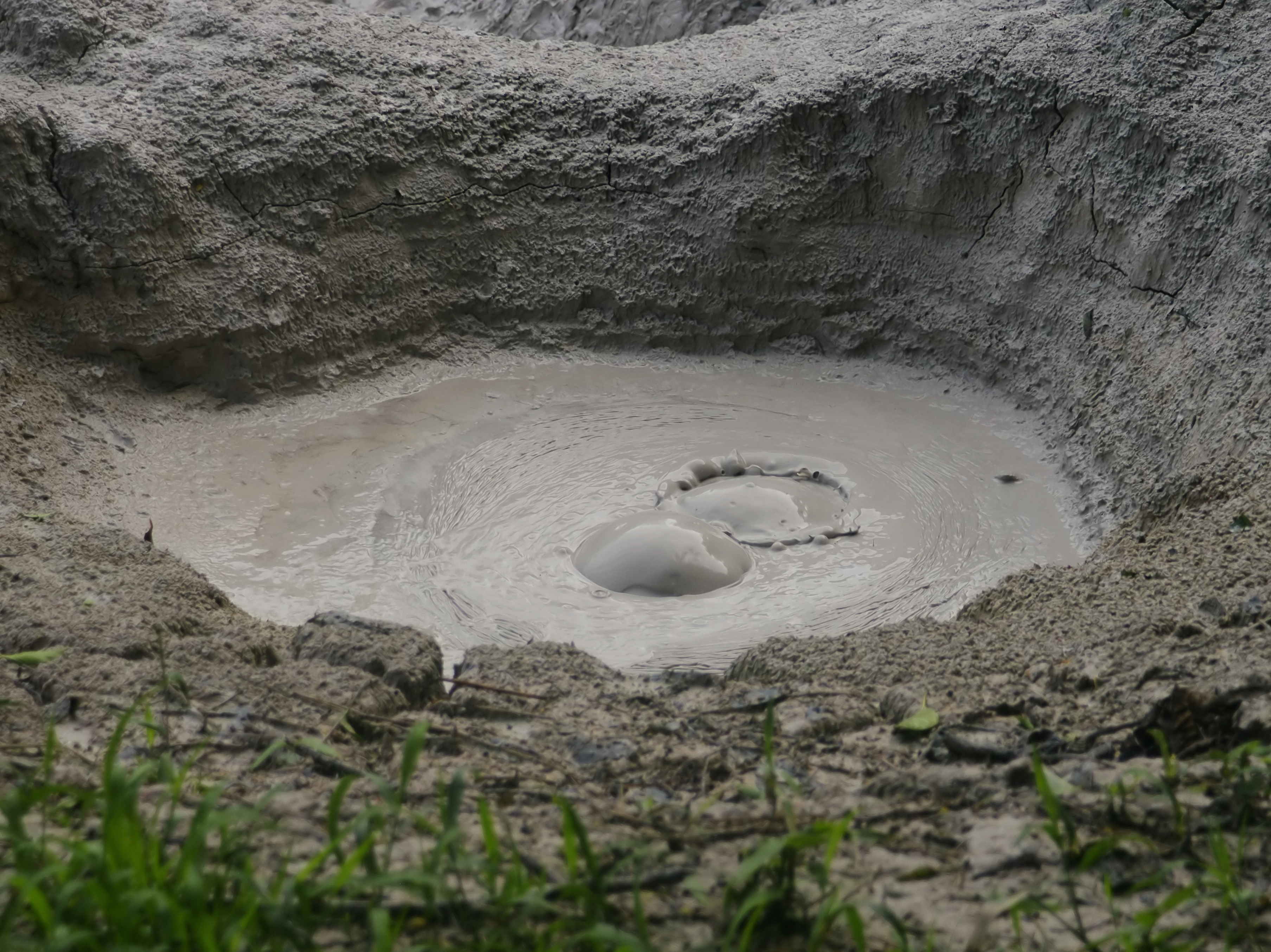 Mudpots at Rincon de la Vieja, Costa Rica